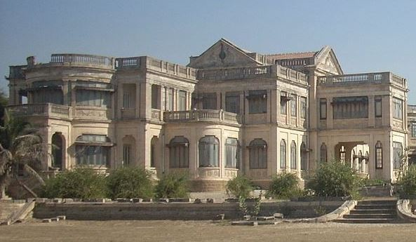 The Huzoor Palace at Marine Drive of Porbandar city built by last Jethwa ruler of State, Maharana Natwarsinhji Bhavsinhji in early 20th century.